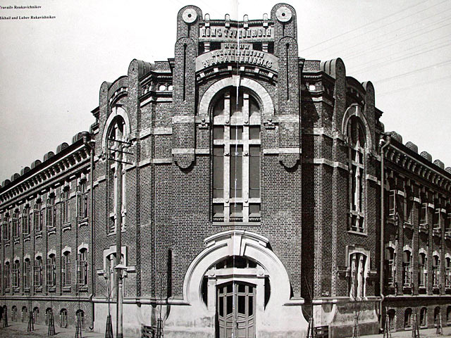 Rukavishnikov House of Diligence